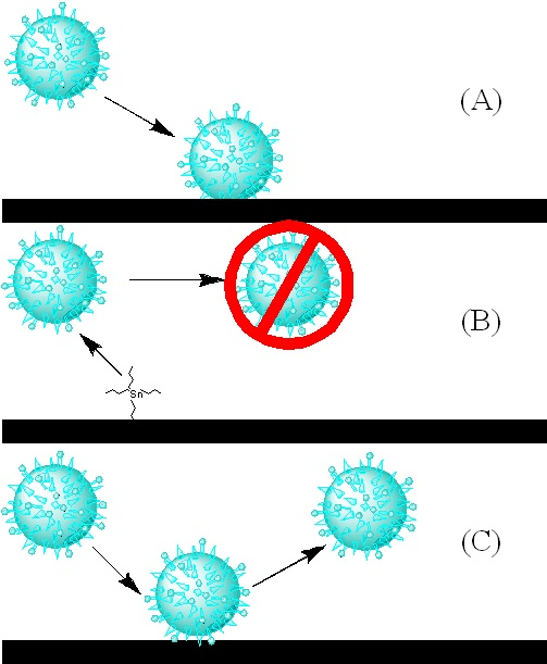 General idea of coating foulings: (A) untreated coating, (B) coating loaded with biocide, and (C) non-toxic coating